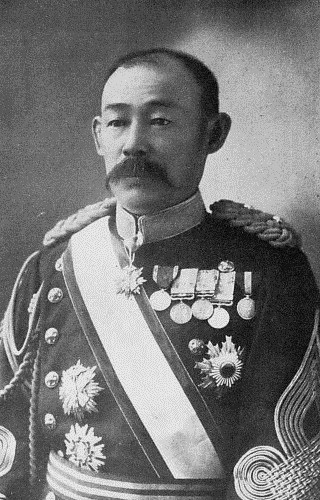 Satoru Nakamura